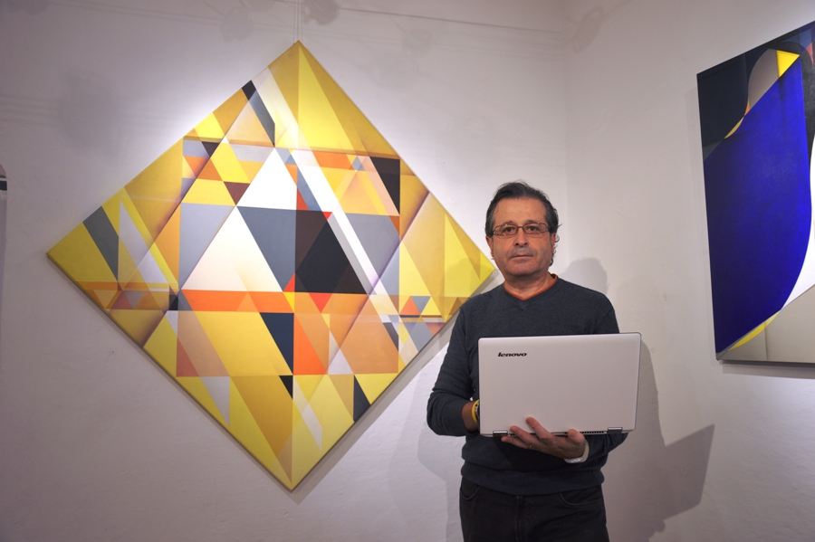 Music by Sergio Maltagliati from...Romano Rizzato's painting.